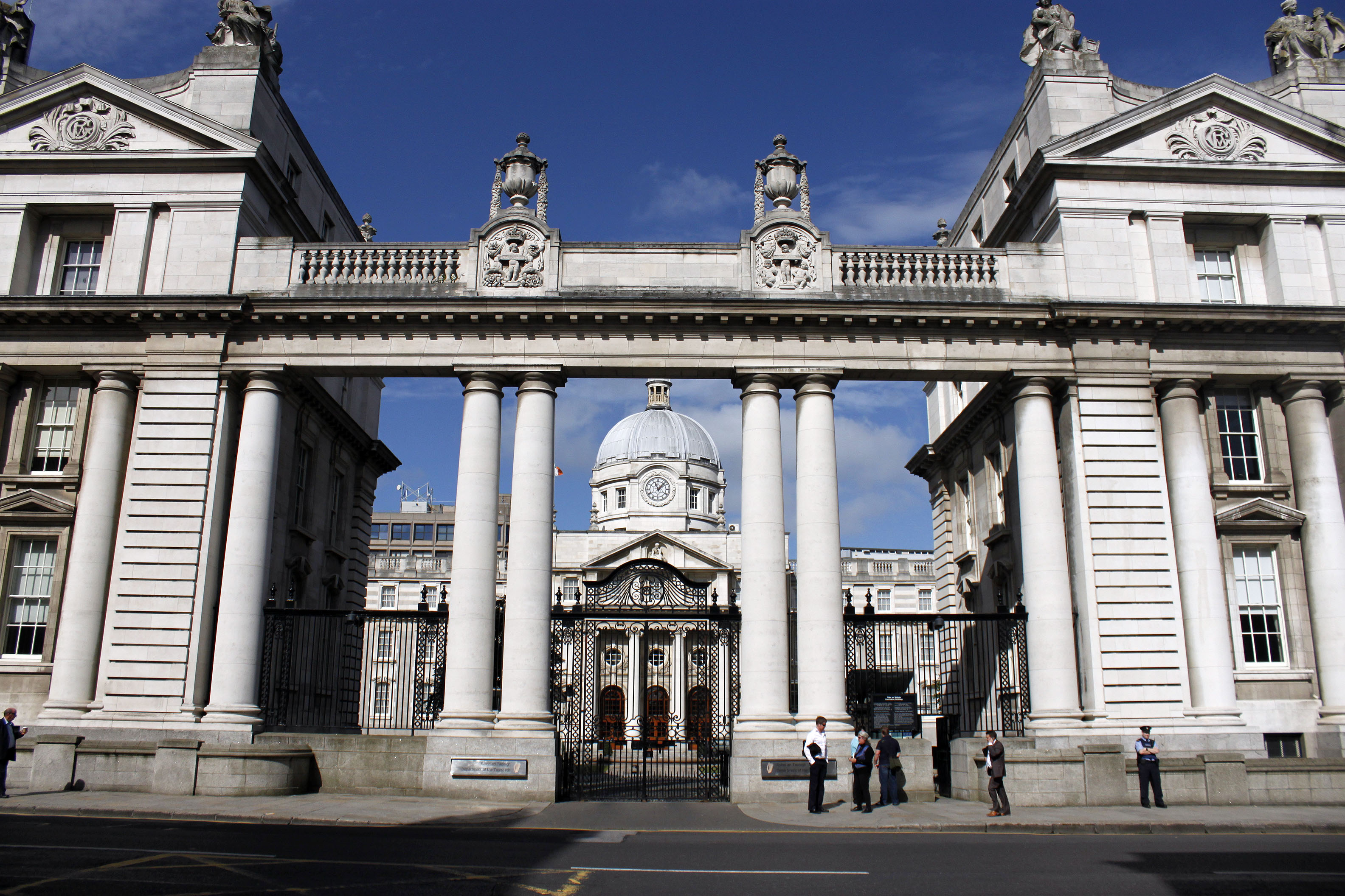 government buildings2